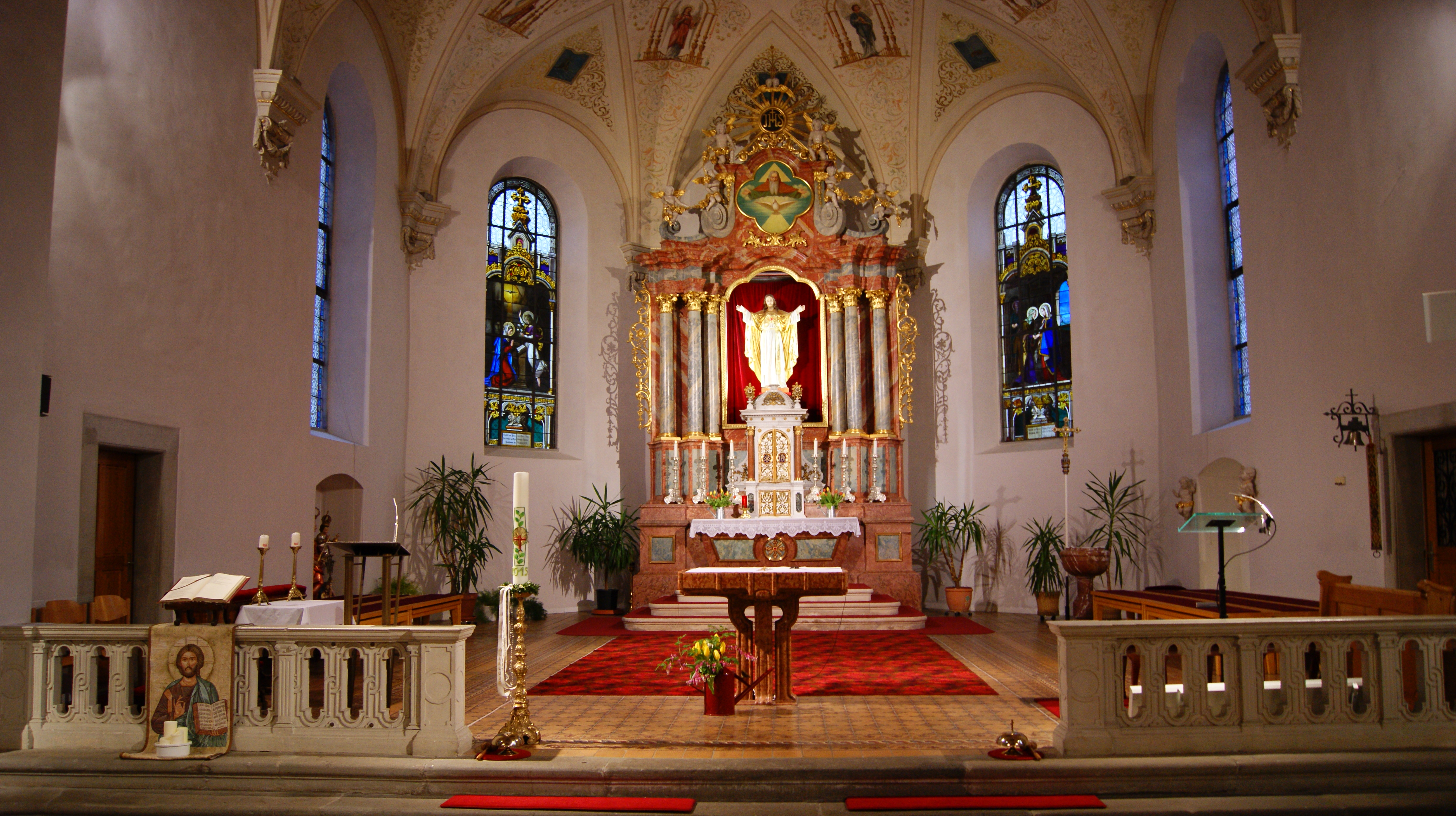 Parish Church of the Visitation in Haselstauden. Pilgrimage church in Dornbirn, Vorarlberg, Austria. Baroque high altar with six columns and replaceable altarpiece. The high altar probably comes from the monastery Mehrerau and is in the church since 1793. The tabernacle is made of white marble and was designed by Maximilian Schmalzl (Tirol).